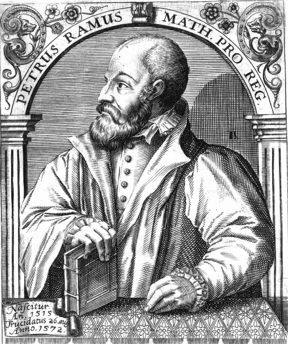 From here